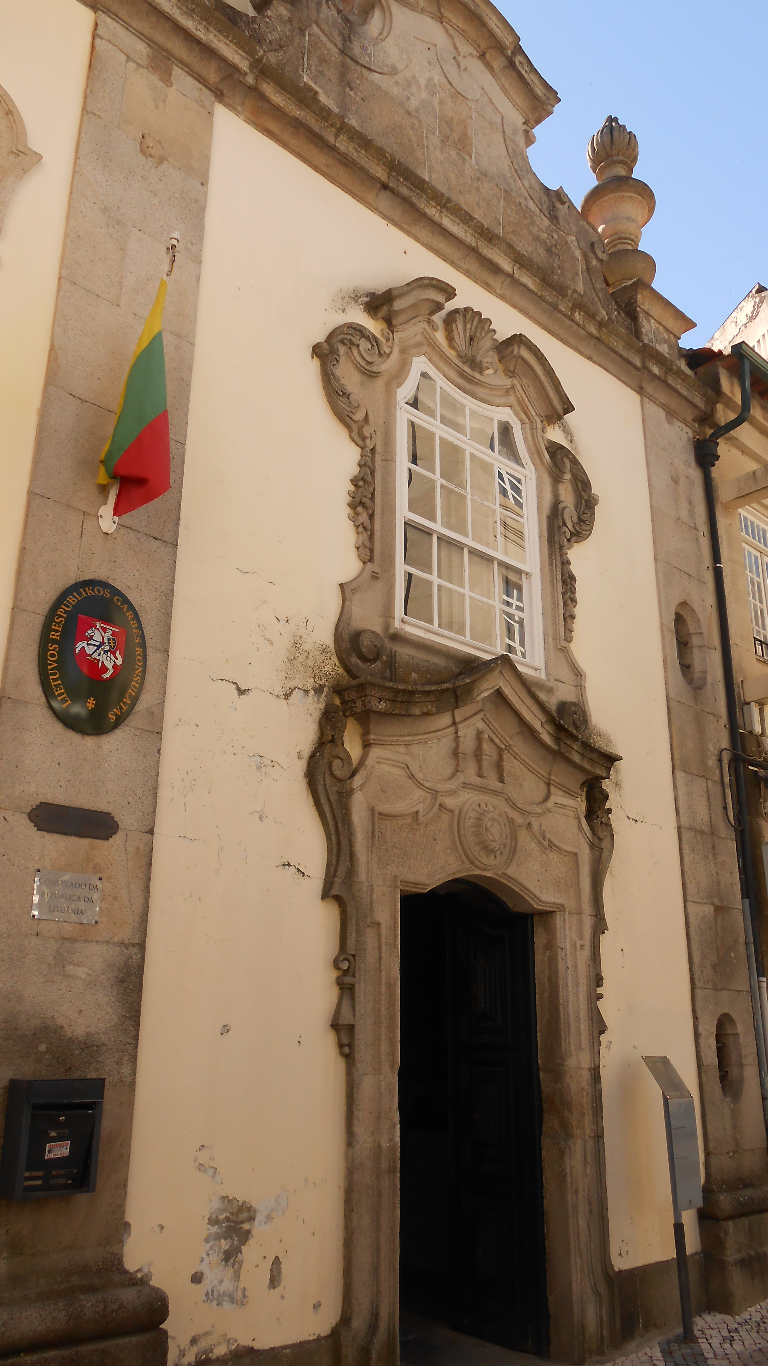 The consulate of Lithuania located in the Casa dos Primes in the historic centre of Viseu, capital of the portuguese district with the same name.